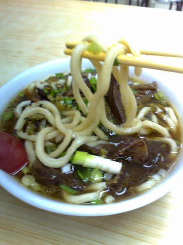 Thick noodle Chinese noodle